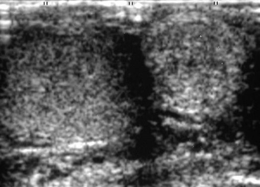 Scrotal ultrasonography of an adenomatoid tumor at the epididymis